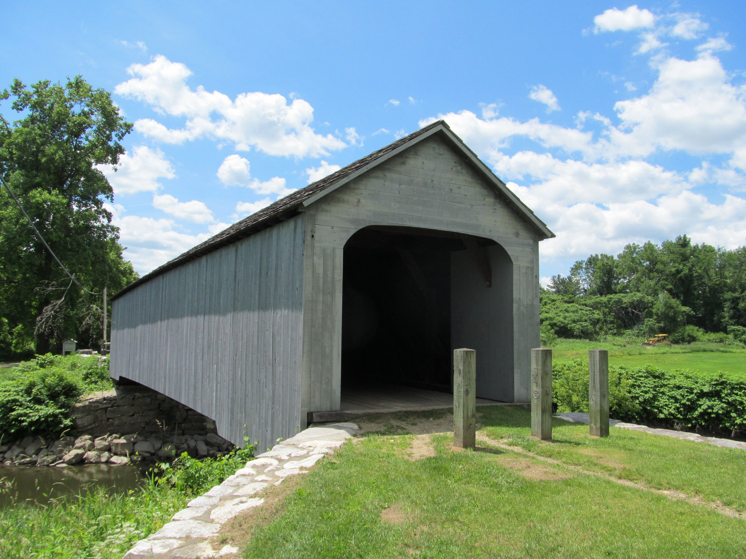 Rebuilt Old Covered Bridge, June 2012, Sheffield Massachusetts